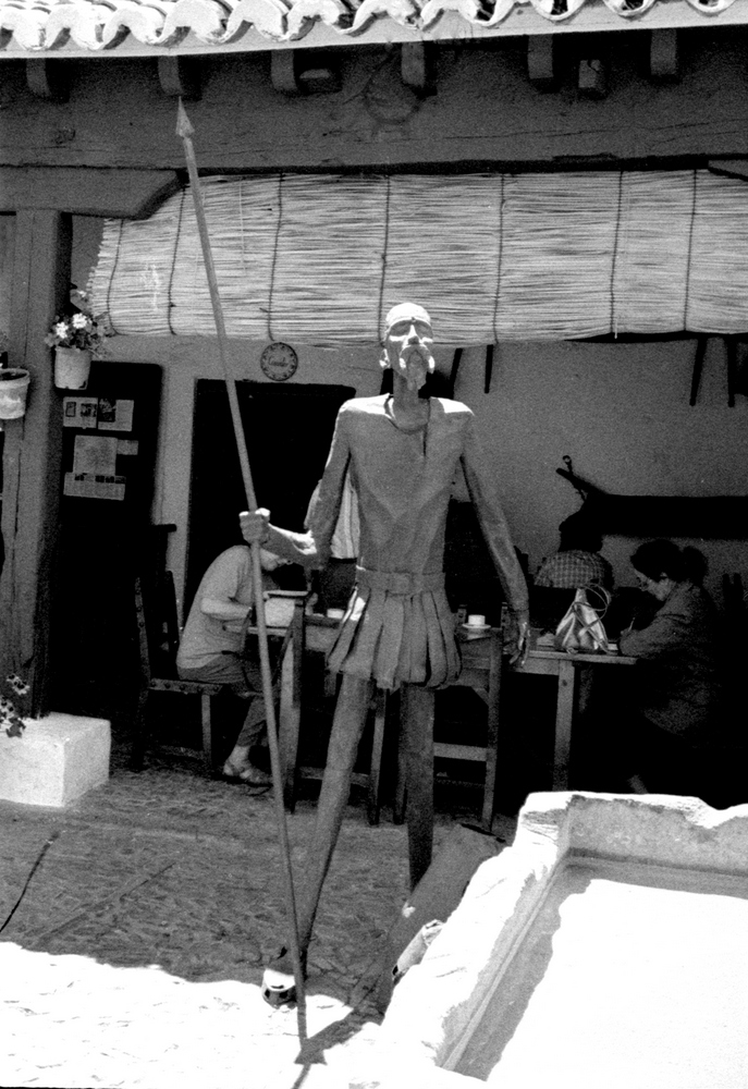 Don Quixote statue